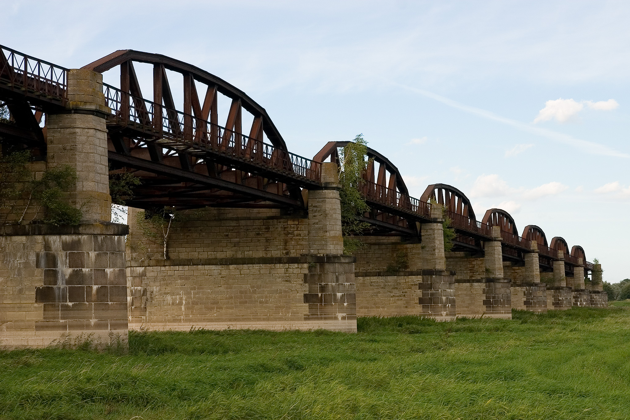 Old railway bridge, damaged in World War II, over the Elbe River near Doemitz in Germany.